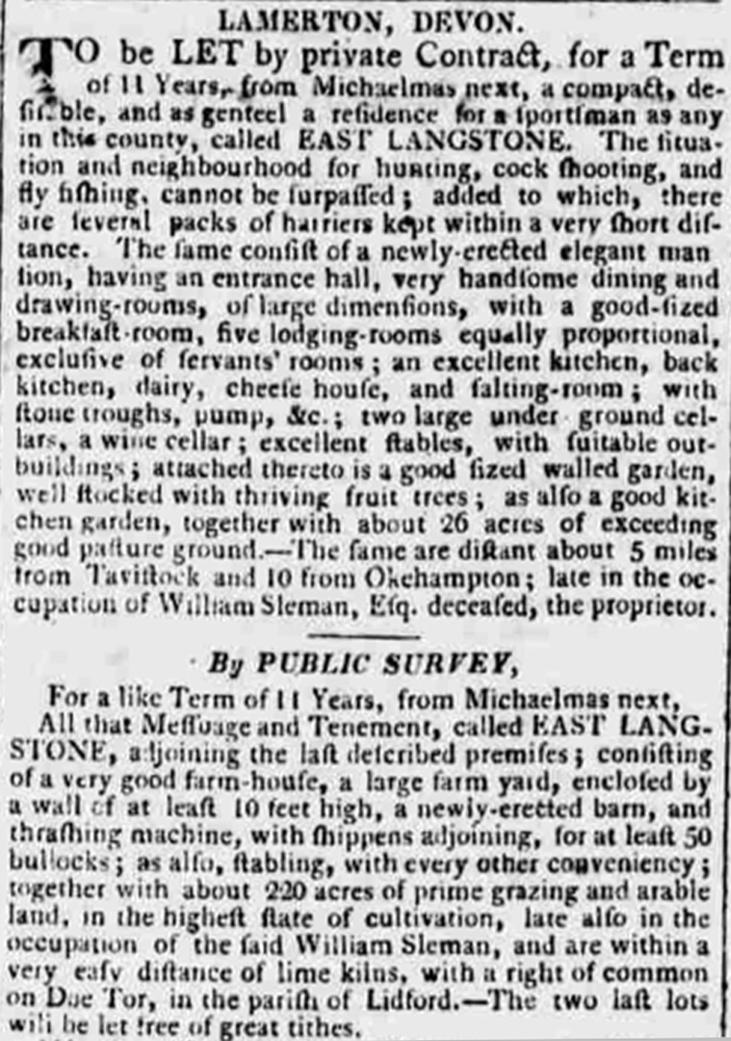 Rental Notice of East Lanstone (now Burnville House)